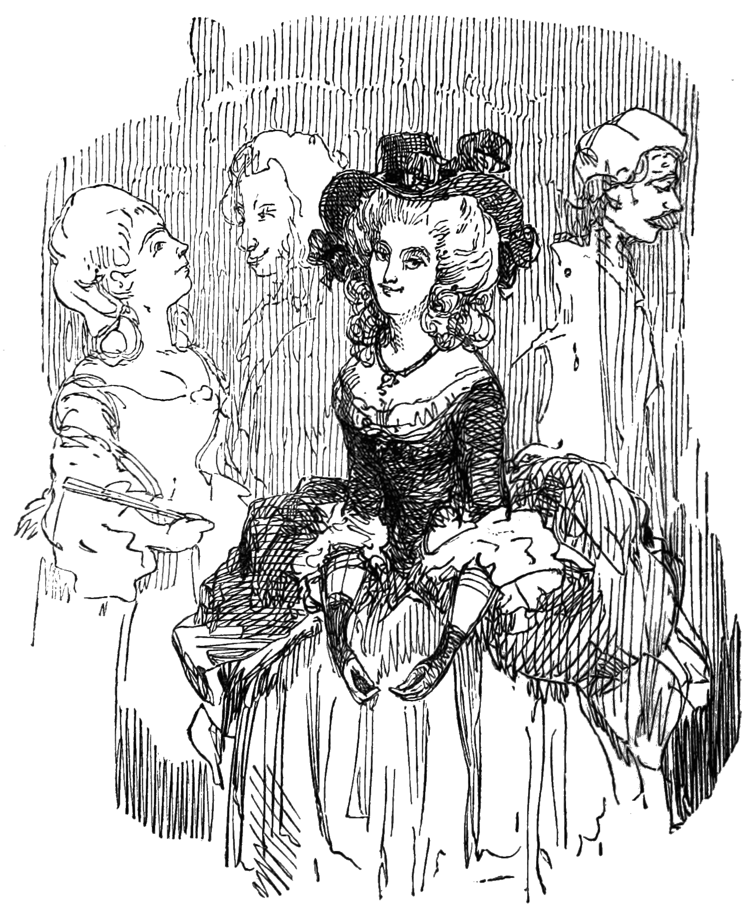 Untitled image from the novel. The number indicates the Djvu page number of the Wikisource transclusion.